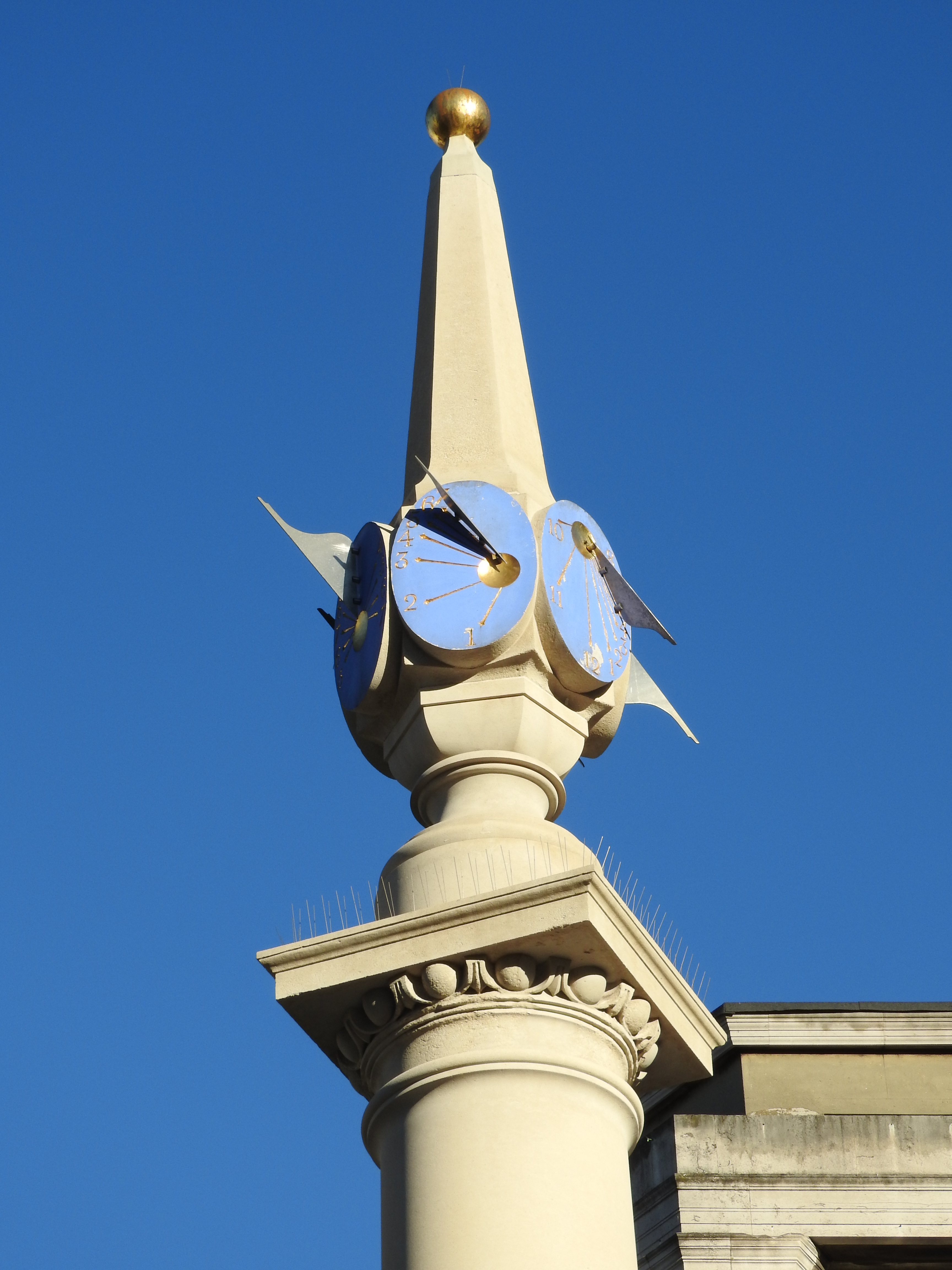 Building scheme of Thomas Neale (1641-1699) Column designed by Edward Pierce in 1693-4, column removed 1773- Seven Dials Trust restored column 1984, commissioned a dial designed Caroline Webb- mathematics by Gordon Taylor.